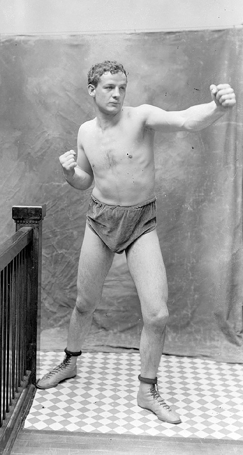 Heavy-weight champ Marvin Hart